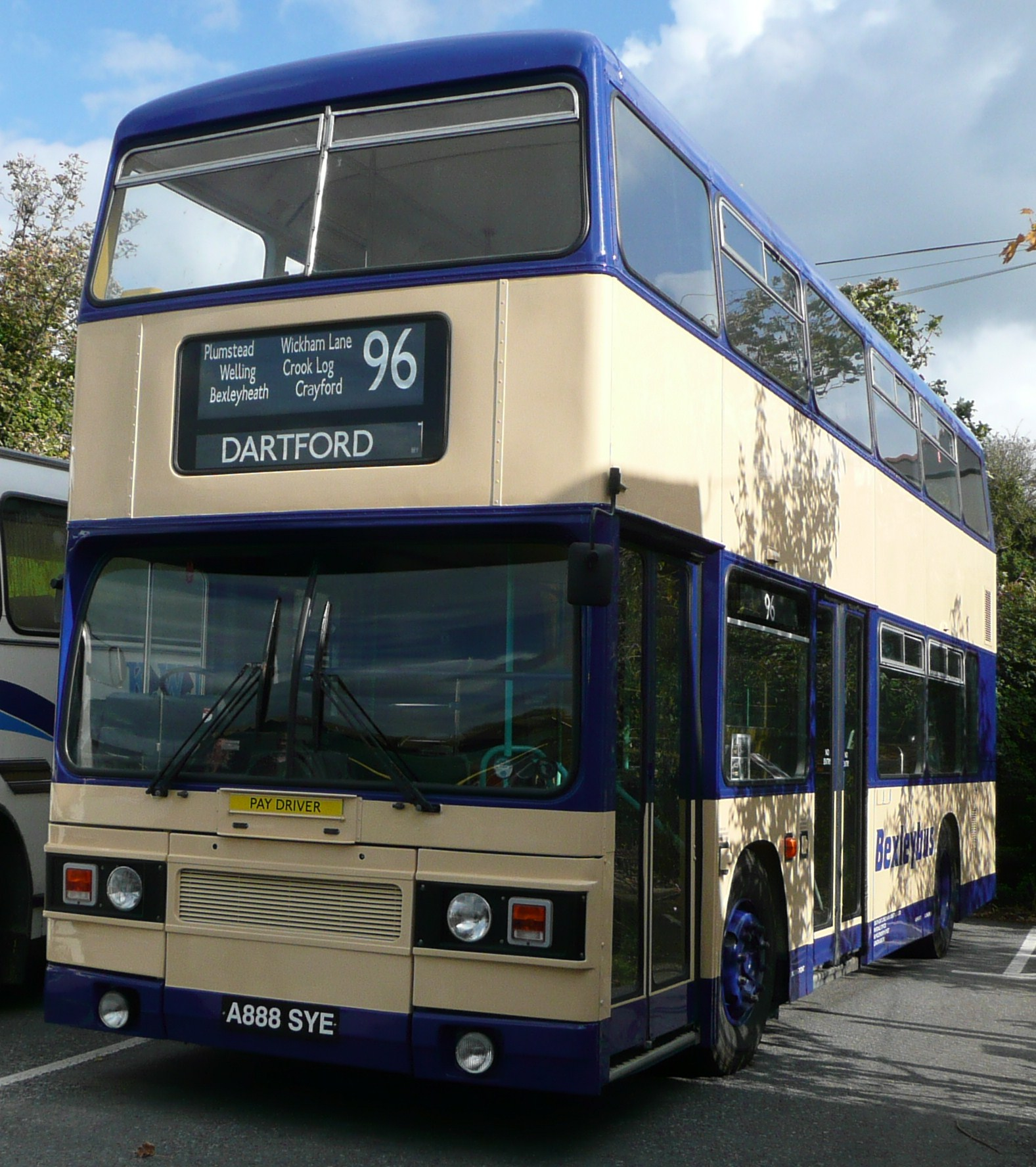 Preserved Bexleybus bus 84 (reg. A888 SYE), a 1983 Leyland Titan (B15), pictured in Newport, Isle of Wight at the IOW bus museum running day. The 948th production Titan, it's from the later batch built at Leyland's expanded factory in the Lillyhall Industrial Estate in Workington (earlier ones were built by British Leyland subsidiary Park Royal Vehicles in Park Royal, London). As with the vast majority of production, it was delivered new to London Transport as part of the dual-door T-class, allocated fleet number T888. It entered service as T888 but after 6 years, in August 1989 it was transferred to the low-cost unit Bexleybus, a division of London Buses set up in January 1989 in the mothballed Bexleyheath garage (code BX) as a response to the deregulation and privatisation process. T888 was repainted into the unit's blue & cream livery, and renumbered 84. Bexleybus was not a success, and was wound up before full privatisation began, with 84 re-entering the red London bus fleet in April 1993 with the London Central division. It was initially allocated to Camberwell garage (code Q), presumably regaining its T888 fleetnumber. When full privatisation occured in 1994 it became part of the London Central fleet. By 2000 it had been sold to West Kent Coach Sales, who after a brief loan to West Kingsdown Coaches, passed it on to Bedford based Cedar Coaches. They renumbered it as their No. 12, but it never lost its former London Central colours. In September 2004 it was bought for preservation, and in late 2007 it was restored to its Bexleybus identity, as seen here.